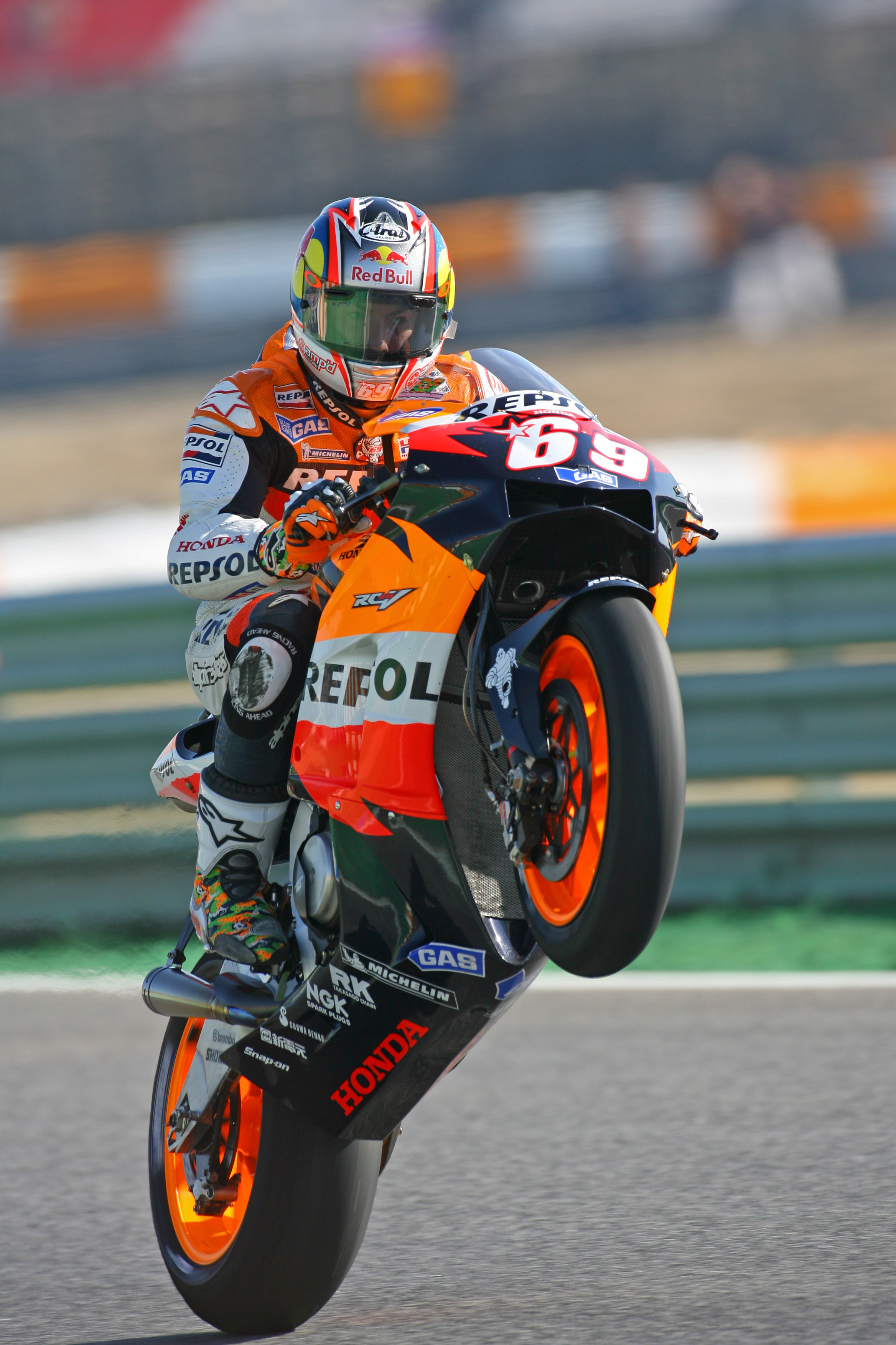 Nicki Hayden, riding his Repsol Honda at the 2006 Portuguese Grand Prix.